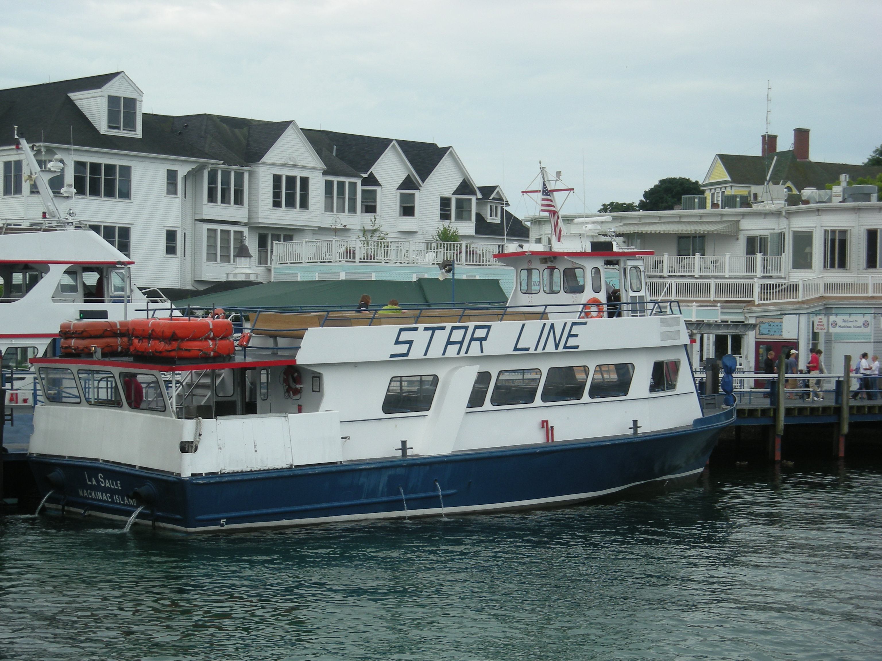 The Star Line ferry La Salle docked at Mackinac Island, Michigan (United States).